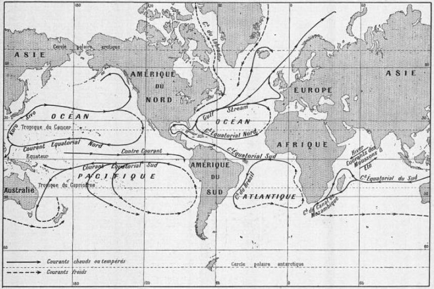 General map of major ocean currents as they were known and mapped in 1910.